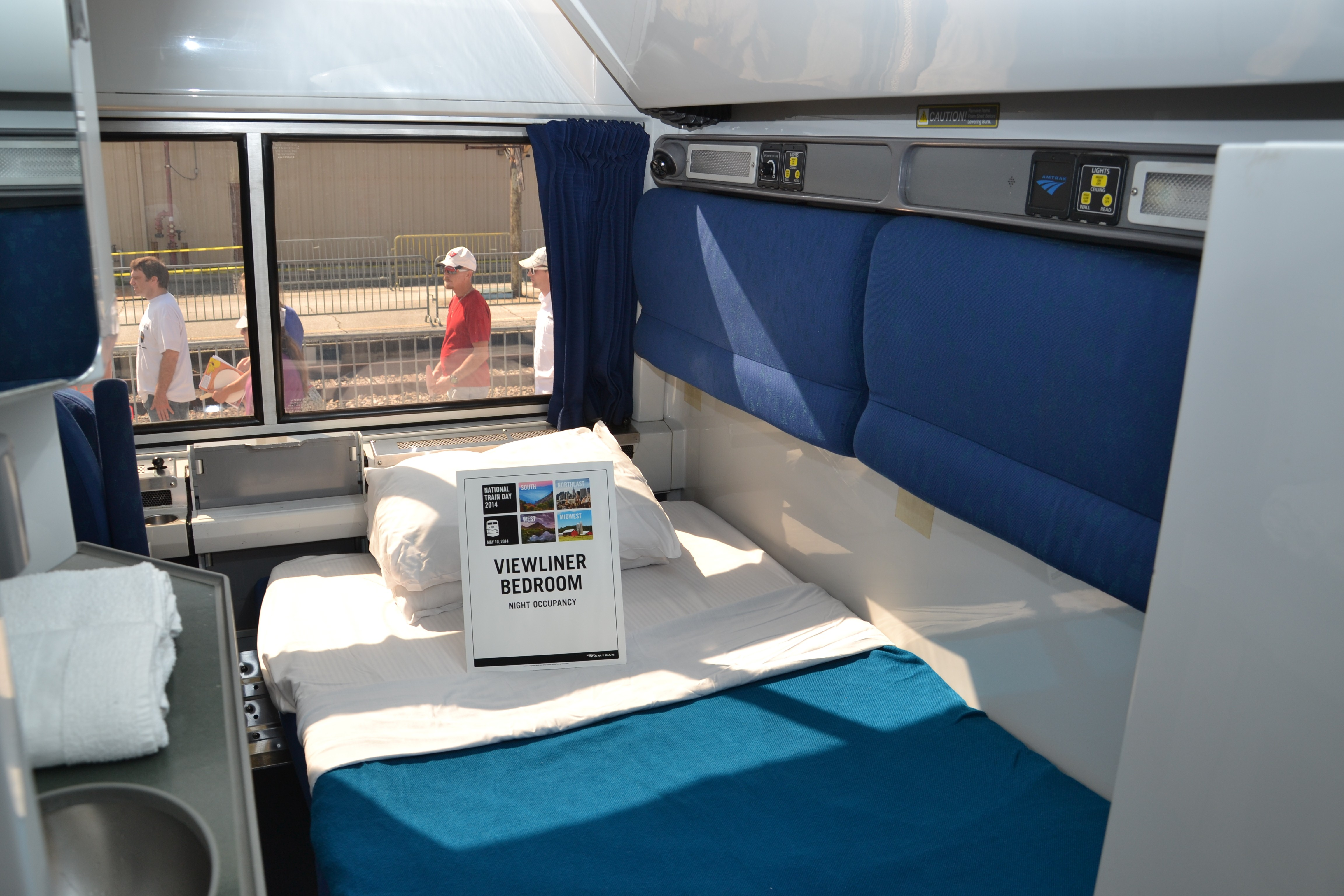 Viewliner Bedroom - National Train Day is held each year to introduce the general public to trains and train history. This year it also was a way to celebrate the 75th anniversary of streamline passenger service to Florida so what better place to hold it than Tampa's historic Union Station. Amtrak still uses Tampa Union Station to host the Silver Star, which carries passengers between New York City and Miami.